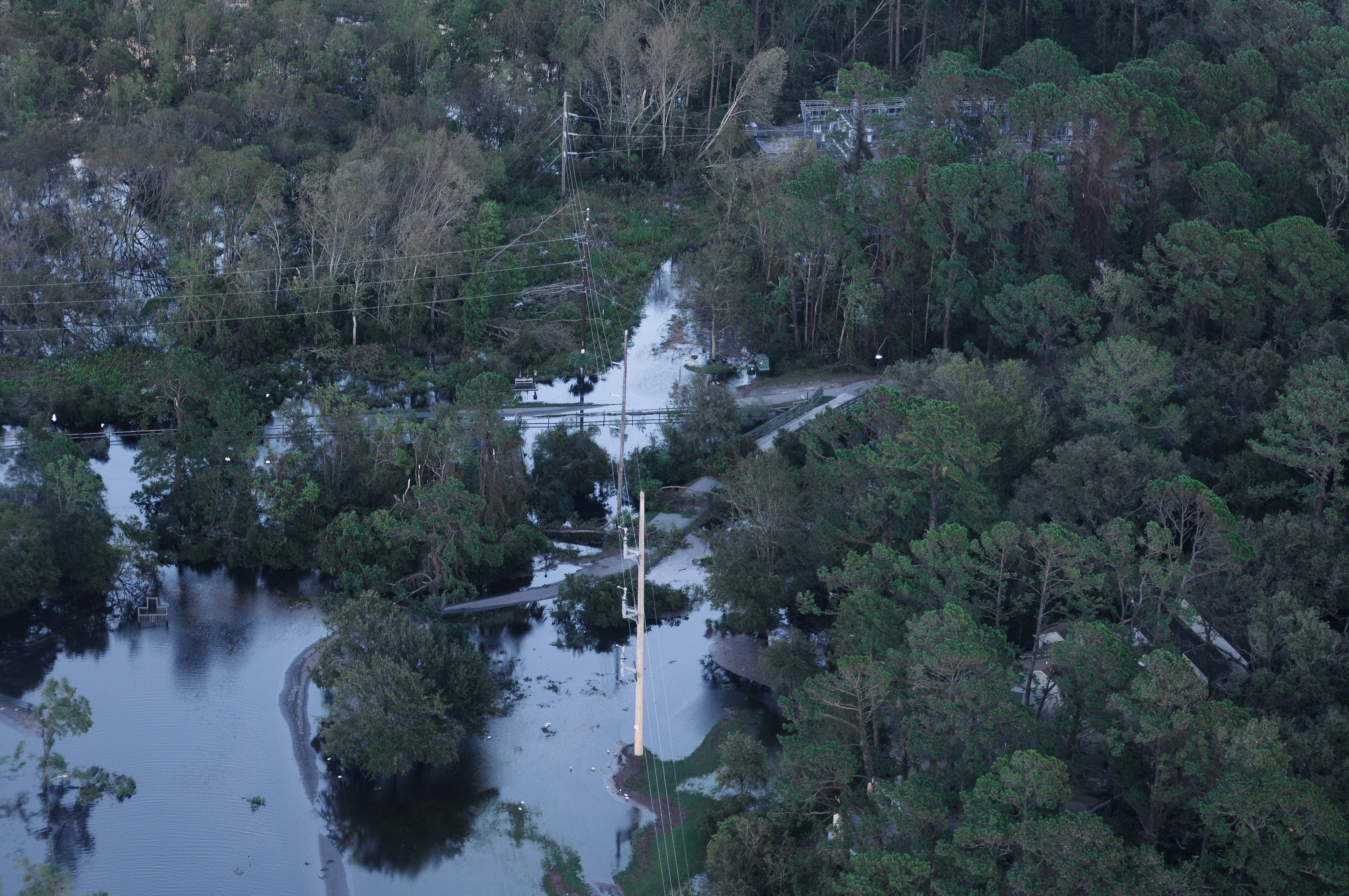 U.S. Soldiers with the South Carolina National Guard's 59th Aviation Troop Command at McEntire Joint National Guard Base, S.C. uses a UH-60L Blackhawk helicopter to perform its first damage assessment mission to determine the effects of Hurricane Matthew's aftermath over the South Carolina Low Country, Oct. 8, 2016. Approximately 2,000 South Carolina National Guard Soldiers and Airmen were activated since Oct. 4, 2016. Hurricane Matthew peaked as a Category 4 hurricane in the Caribbean and is projected to pass along the S.C. coast. (U.S. Army National Guard Photo by Staff Sgt. Roberto Di Giovine) Unit: South Carolina National Guard DVIDS Tags: Soldier; flooding; DSCA; damage assessment; South Carolina Army National Guard; SC National Guard; first responder; Airman; National Guard; domestic operations; S.C. Army National Guard; SCARNG; McEntire Joint National Guard Base; hurricane response; Defense Support of Civil Authorities; DOMOPS; SCNG; Nikki Haley; SCEMD; SC Emergency Management Division; Hurricane Matthew; Governor of South Carolina; SC-Gov